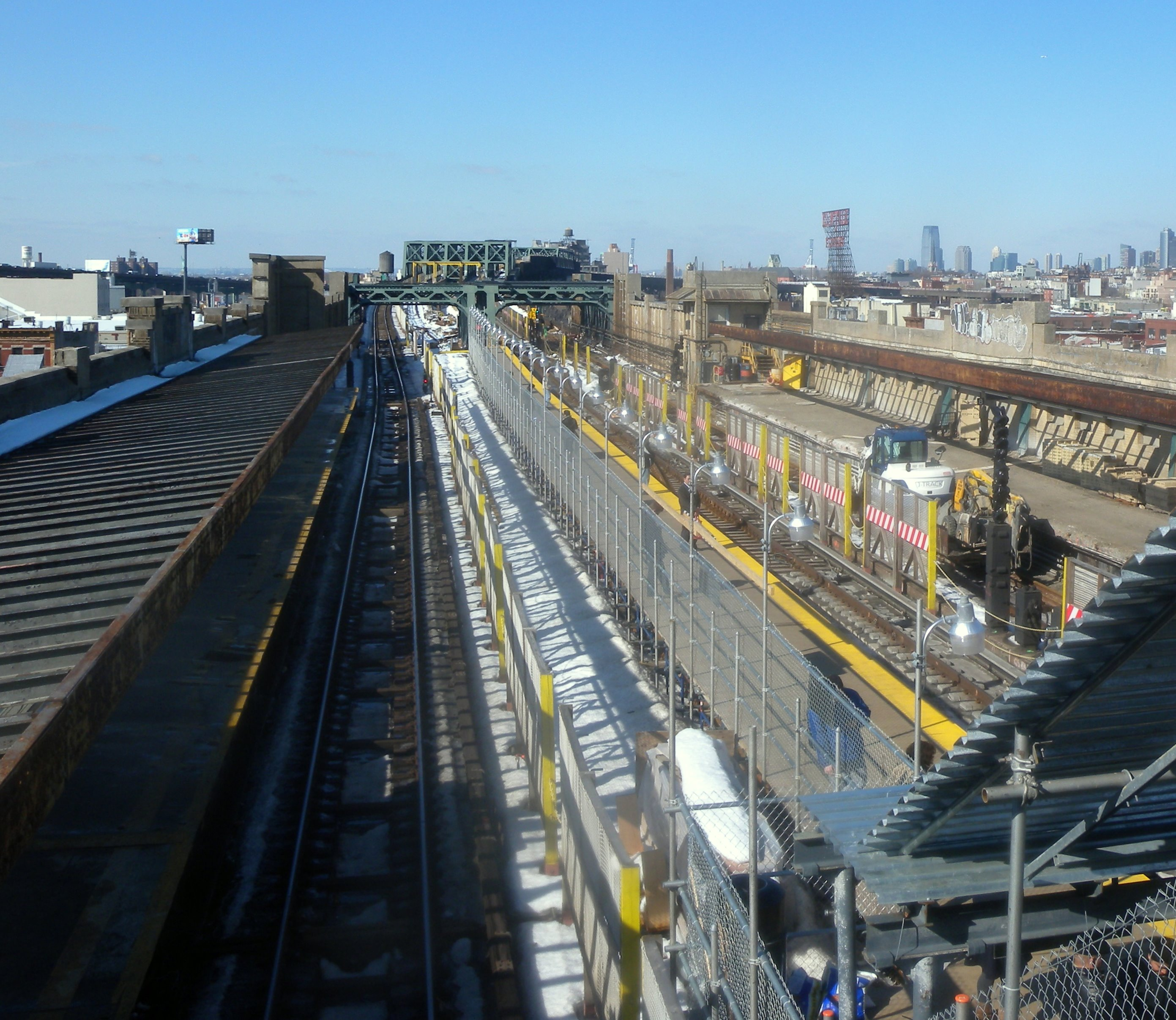 Looking northwest towards lower Manhattan and north end of IND station from crossover.